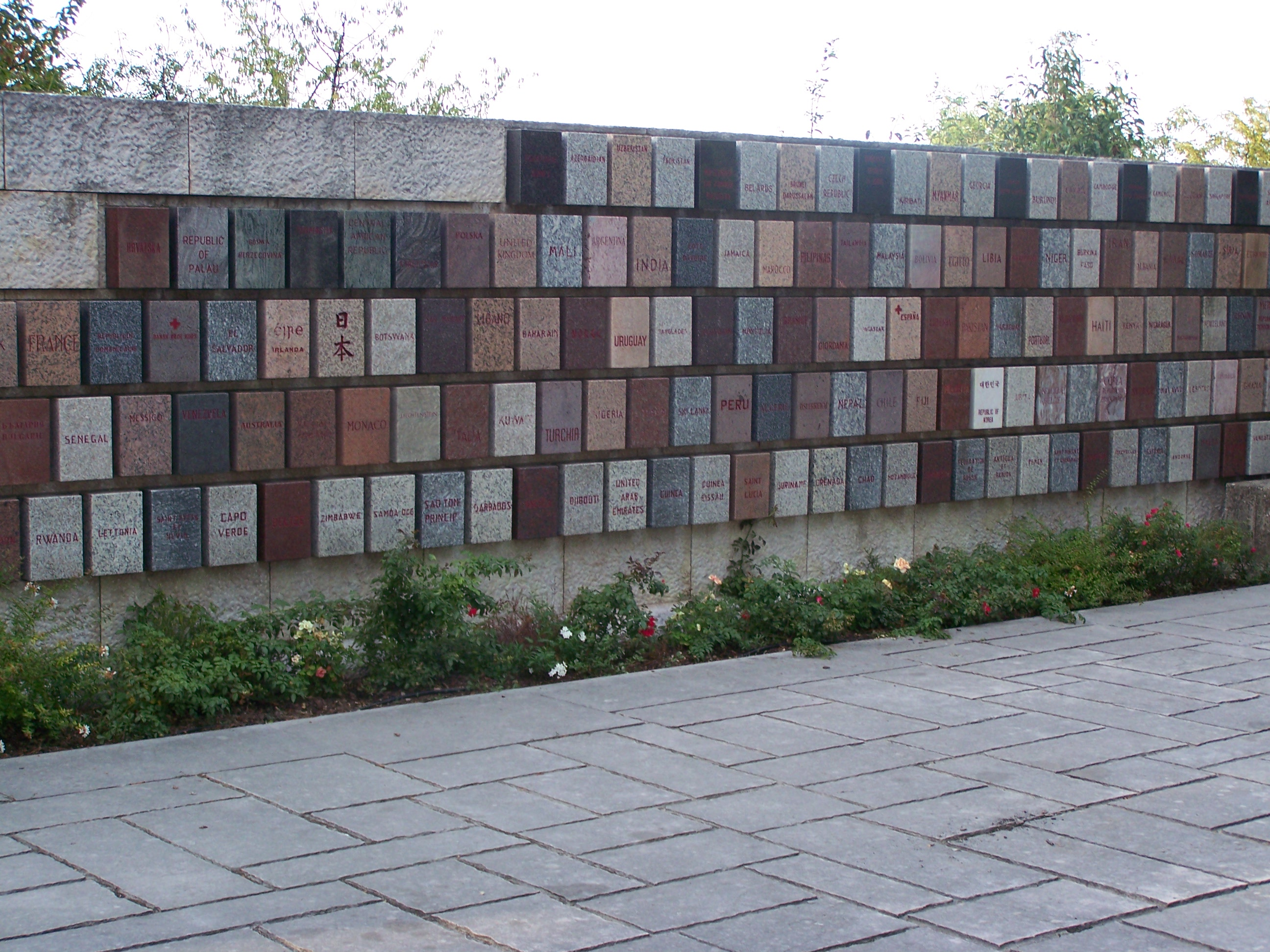 Red cross memorial in Solferino